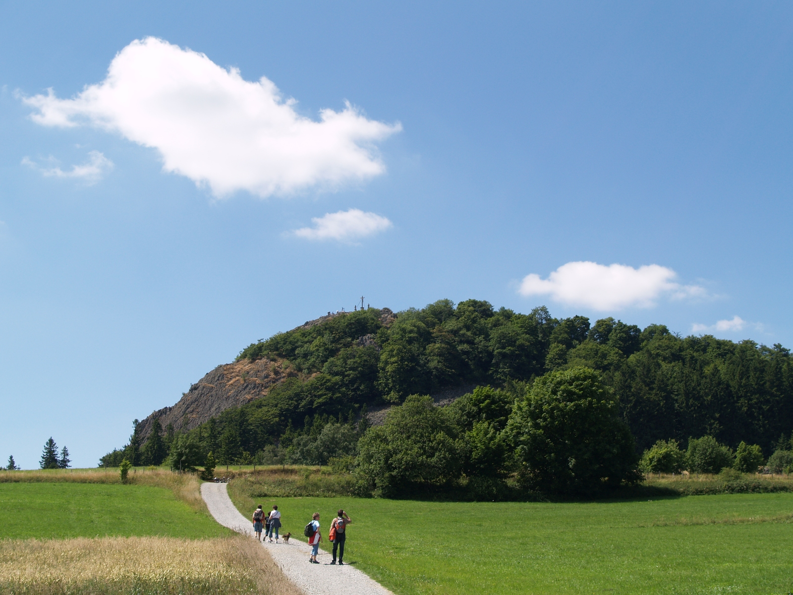 Milseburg, Rhön, Germany